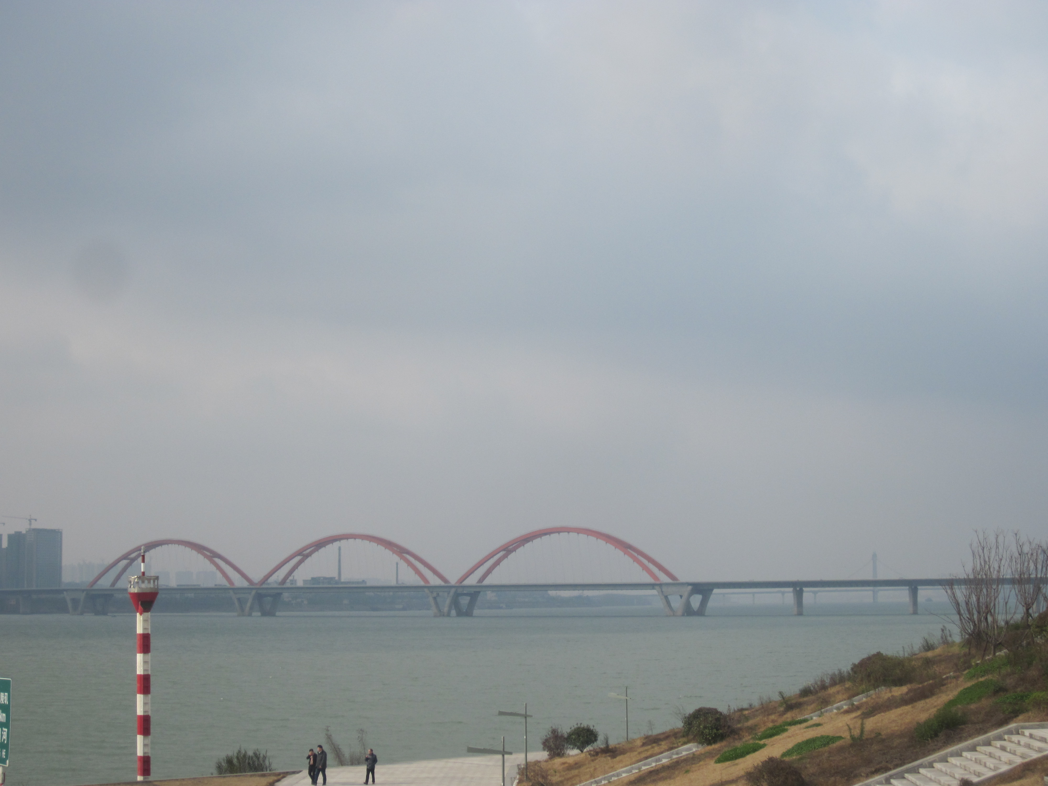 The Fuyuanlu Bridge is a X-type arch bridge across the Xiangjiang River between New Riverside City and New Kaifu City in Changsha, Hunan, China.